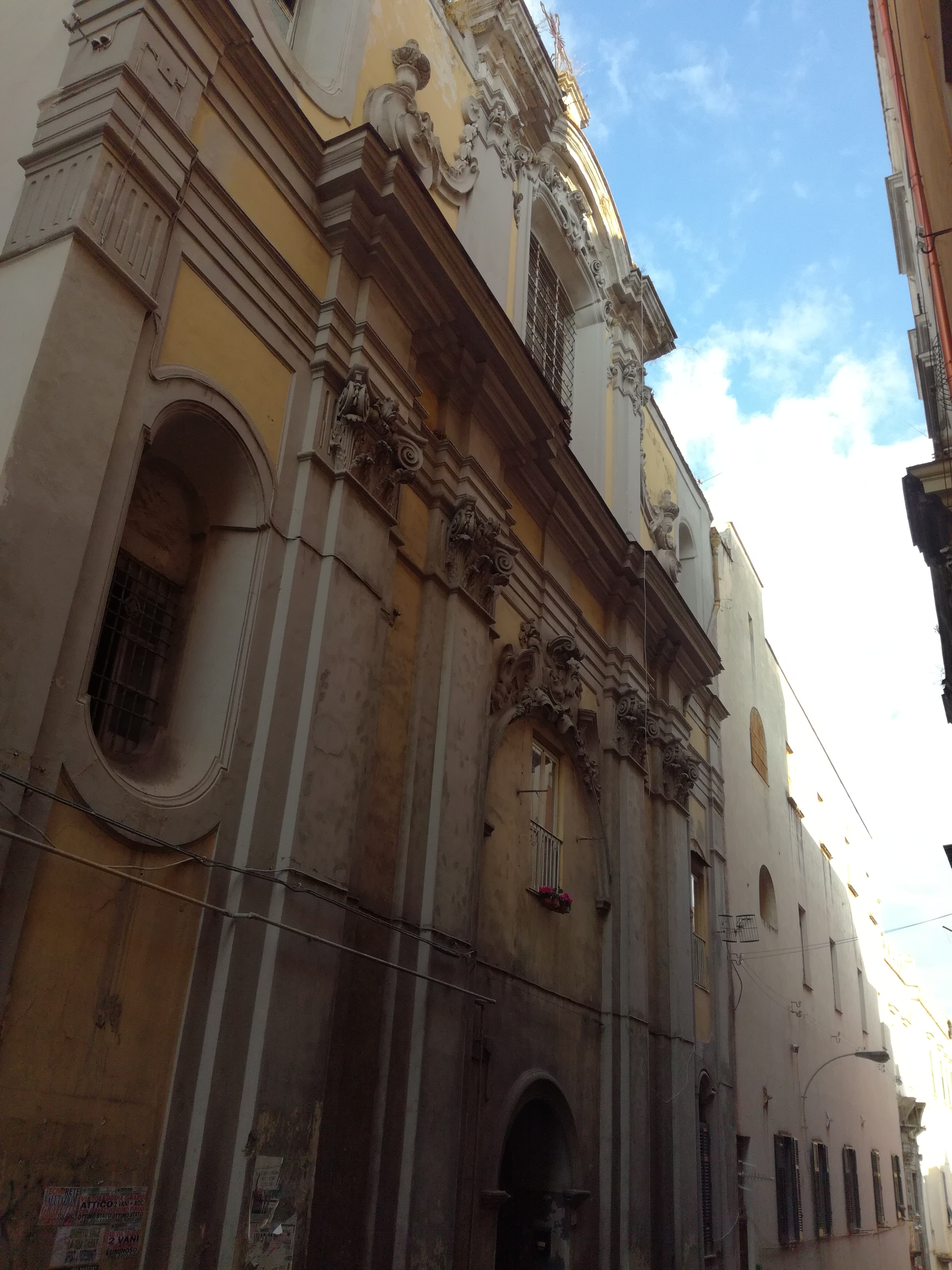 Church of S. Pieteo e Paolo (Naples)